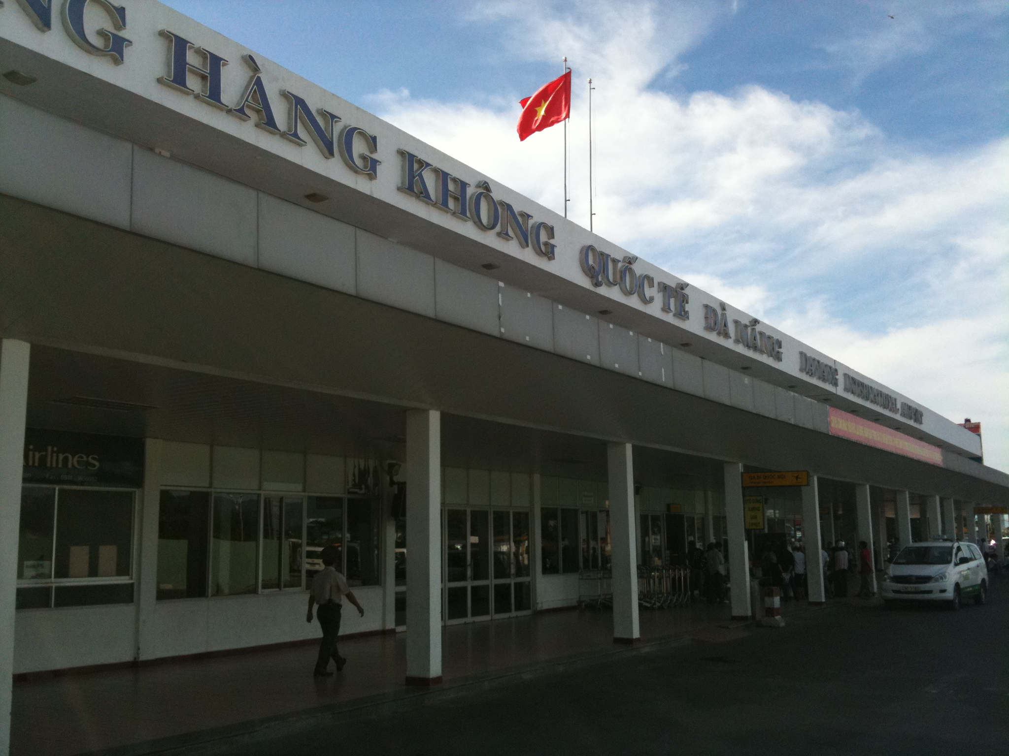 Da Nang International Airport, the old terminal.